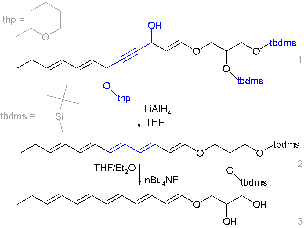 Whiting Reaction